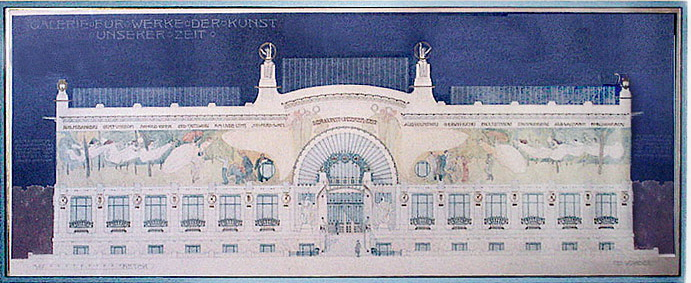 Galerie fuer Werke der Kunst Unserer Zeit Historisches Museum der Stadt Wien, Vienna.